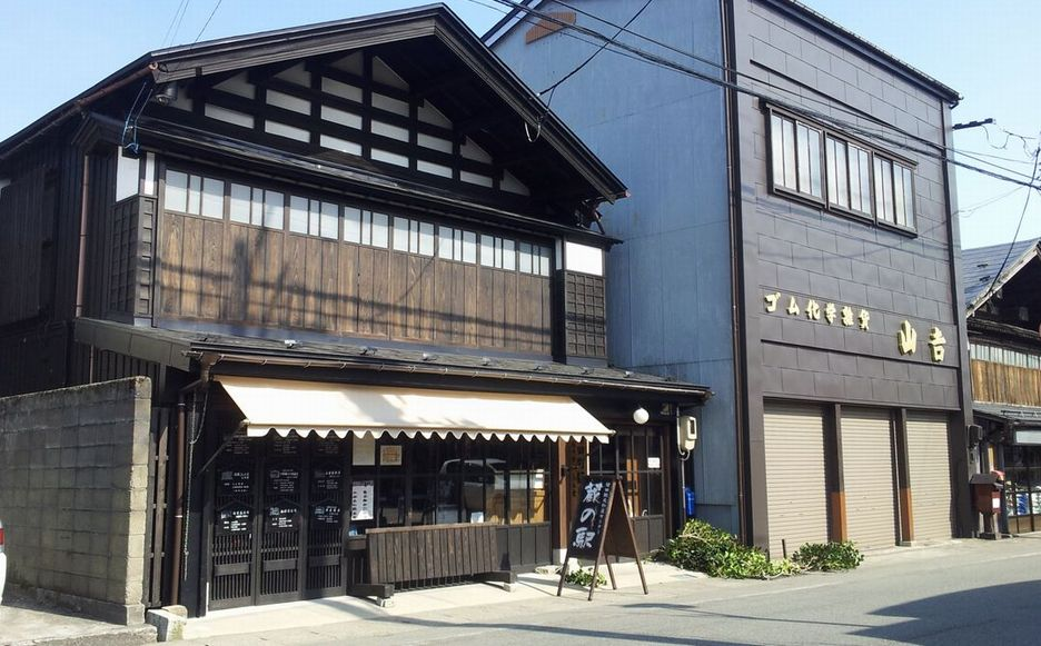 Masuda Tourism and Product Sales Center "Kura no Eki" and Yamanaka Kichisuke Shoten